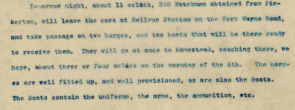 This is a portion of the typed and signed copy of the letter sent to Andrew Carnegie describing the plans and munitions that will be on the barges when the Pinkertons arrive to confront the strikers in Homestead. The sherrif’s department is also described. The date of the letter is July 4, 1892. Caption: "Tomorrow night, about 11 oclock, 300 Watchmen obtained from Pinkerton, will leave the cars at Bellvue Station on the Fort Wayne Road, and take passage on two barges, and two boats that will be there ready to receive them. They will go at once to Homestead, reaching there, we hope, about three or four oclock on the morning of the 6th. The barges are well fitted up, and well provisioned, as are also the Boats. The Boats contain the uniforms, the arms, the ammunition, etc." The highly detailed, digitized and entire copy of this letter is available from the University of Pittsburgh Archives Service Center, The University of Pittsburgh Library System and can be viewed here: The image is part of the The Henry Clay Frick Business Collection containing Fricks business records. The copyrights of the items have expired. The catalog describing the contents of the collection can be accessed here: This image is provided by the Wikipedia Visiting Scholars program at the University of Pittsburgh.